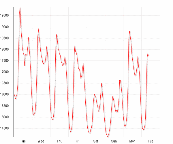 Hourly electricity production in MWh/h in Norway in winter shown over a week